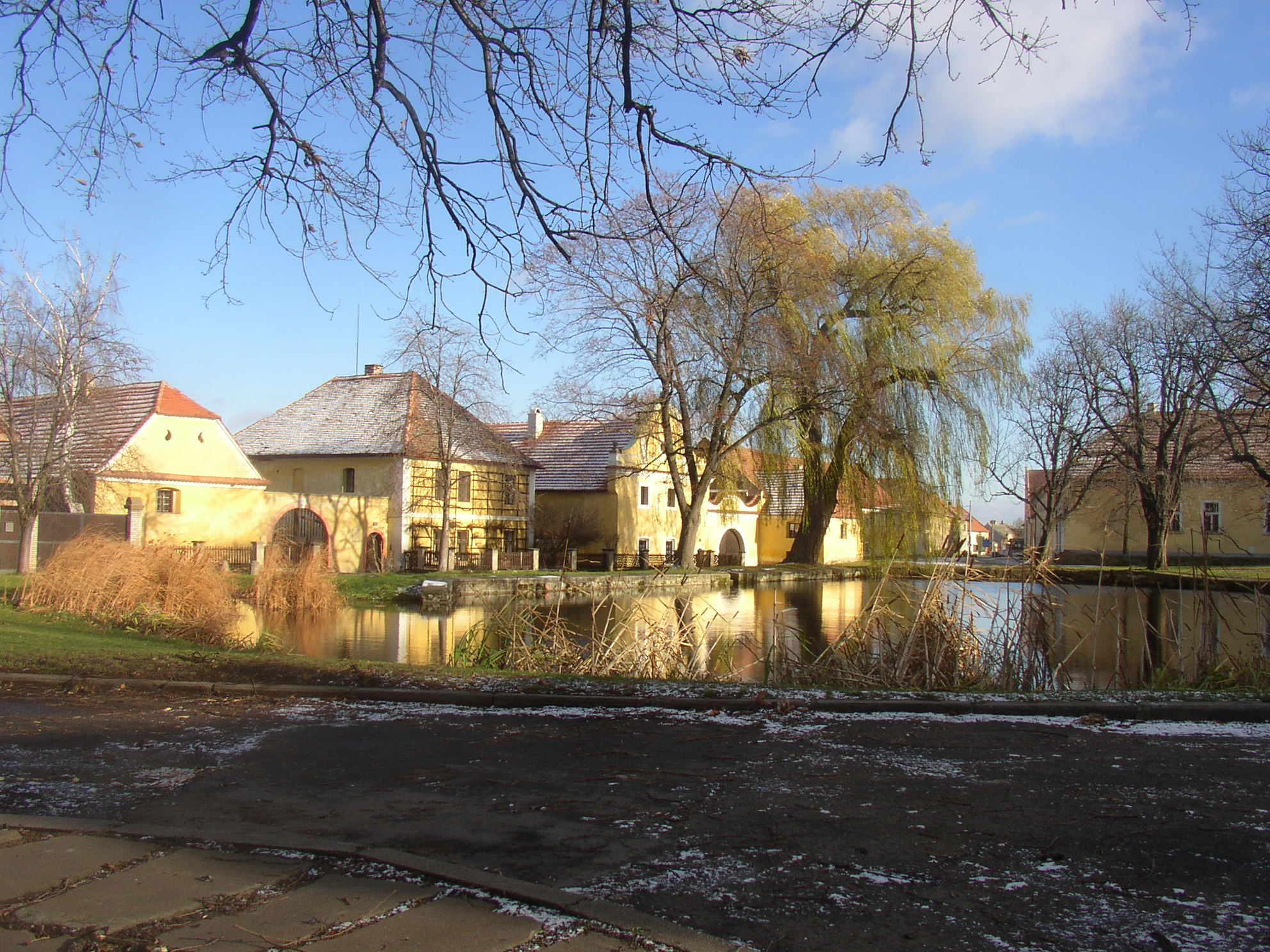 Northeast corner of village green in Třebíz, Kladno District, Czech Republic.